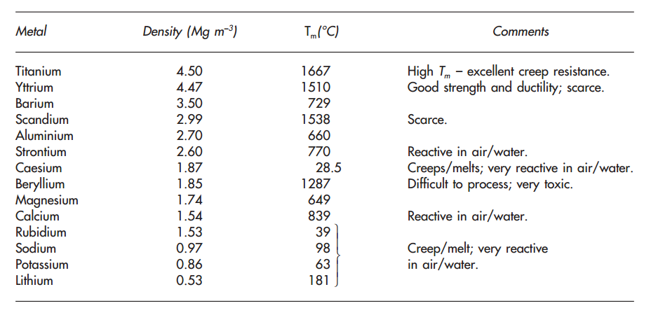 The light metals